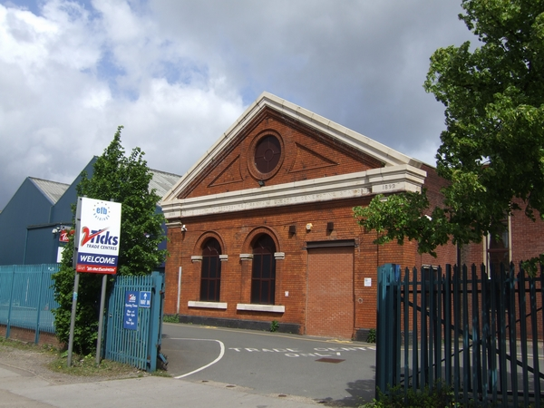 Tramway Generating Station The South Staffordshire Tramways Generating Station dates from 1892. The company had about 23 miles of track linking Darlaston, Wednesbury, West Bromwich, Handsworth, Great Bridge, Dudley Port, Dudley, Walsall, and Bloxwich. Trams disappeared from Walsall in the 1930s.